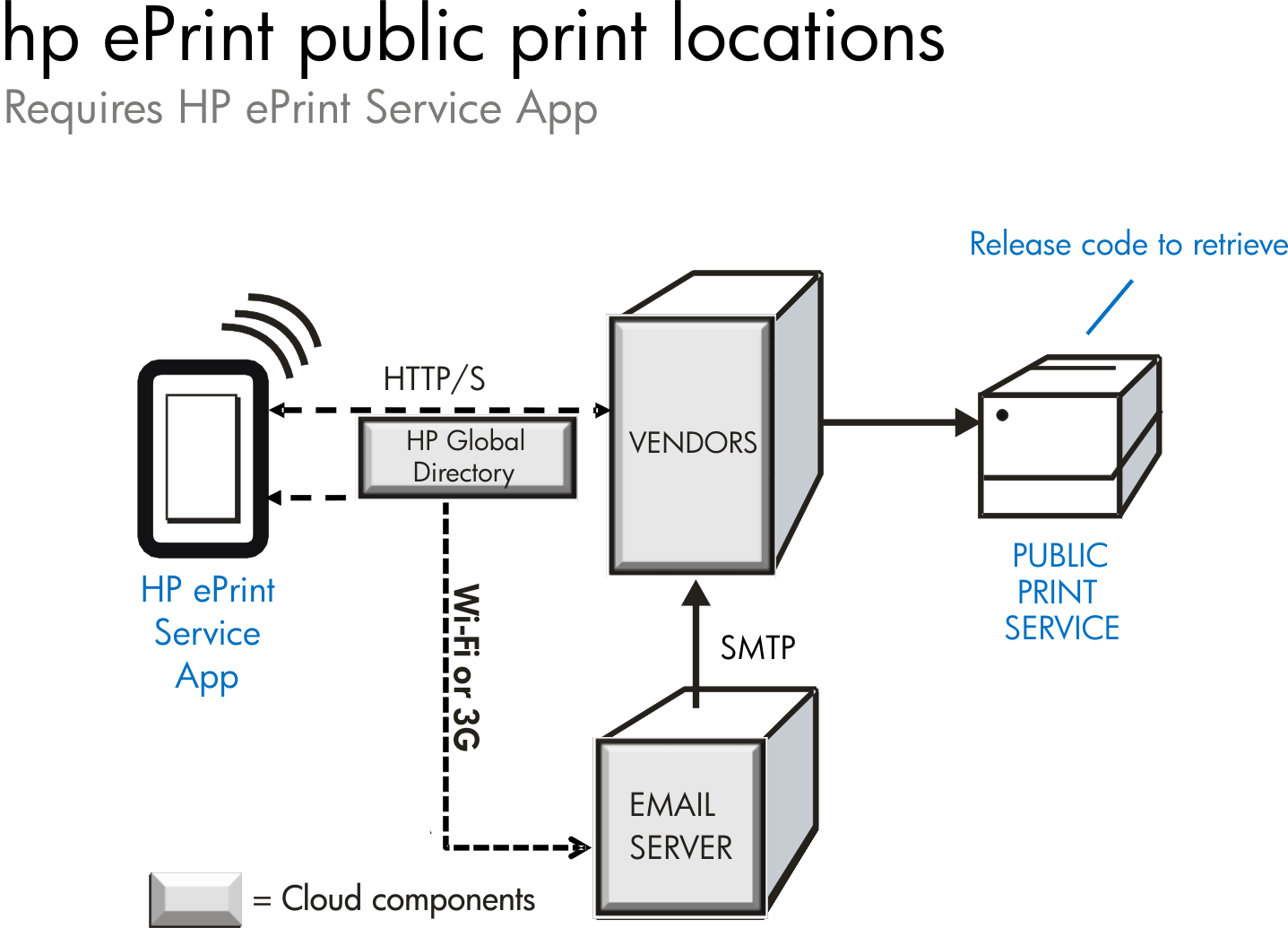 Figure 2. HP ePrint Mobile Printing Solution data flowchart.